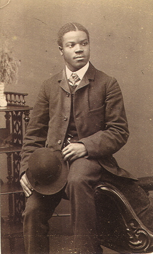 Studio portrait of Benjamin William Quartey-Papafio holding bowler hat, c.1878-1894. Photographer: Henry W. Taunt & Co. Original held by Barts Health NHS Trust Archives and Museums (item reference: SBHX10/64).